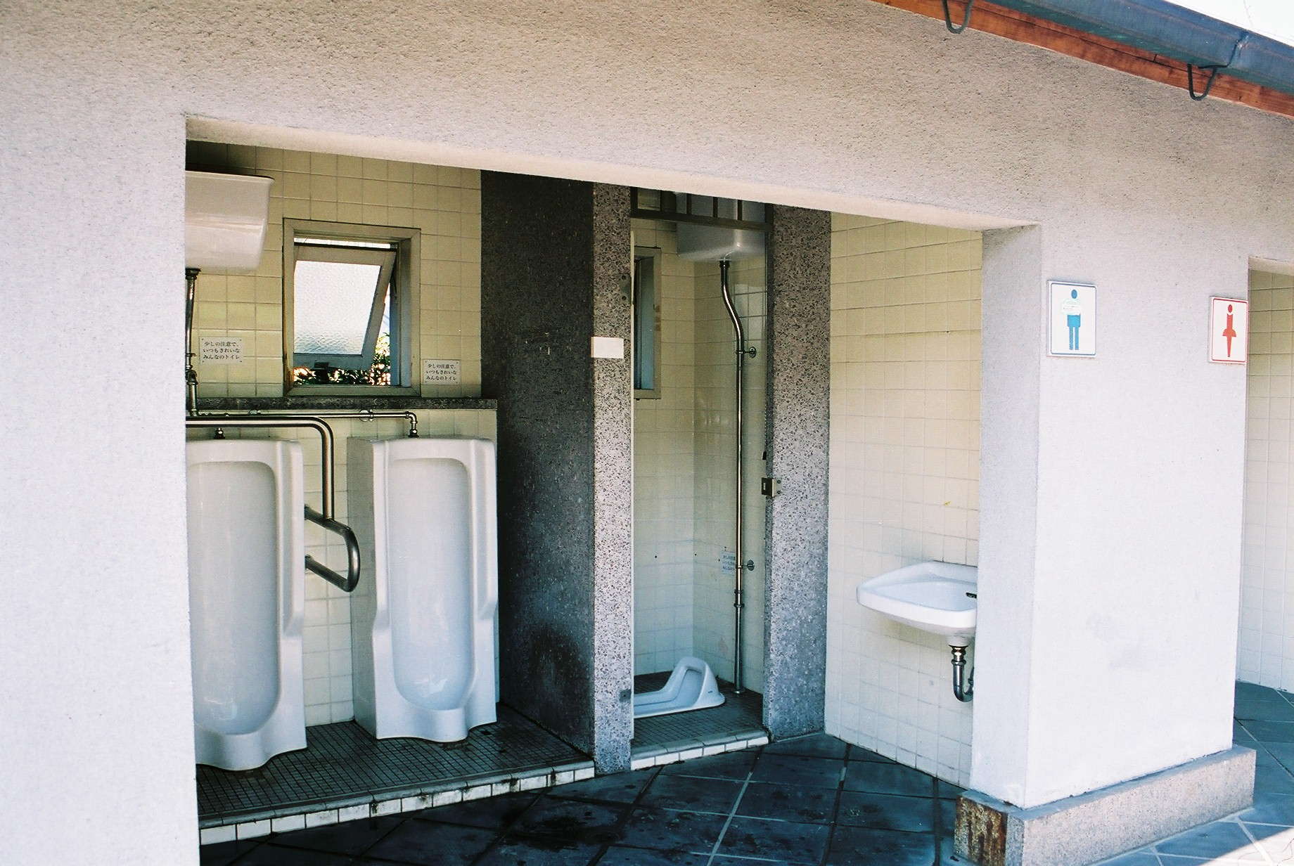 for some reason in japan you can always see directly into men's public toilets. this seemed a nice example.